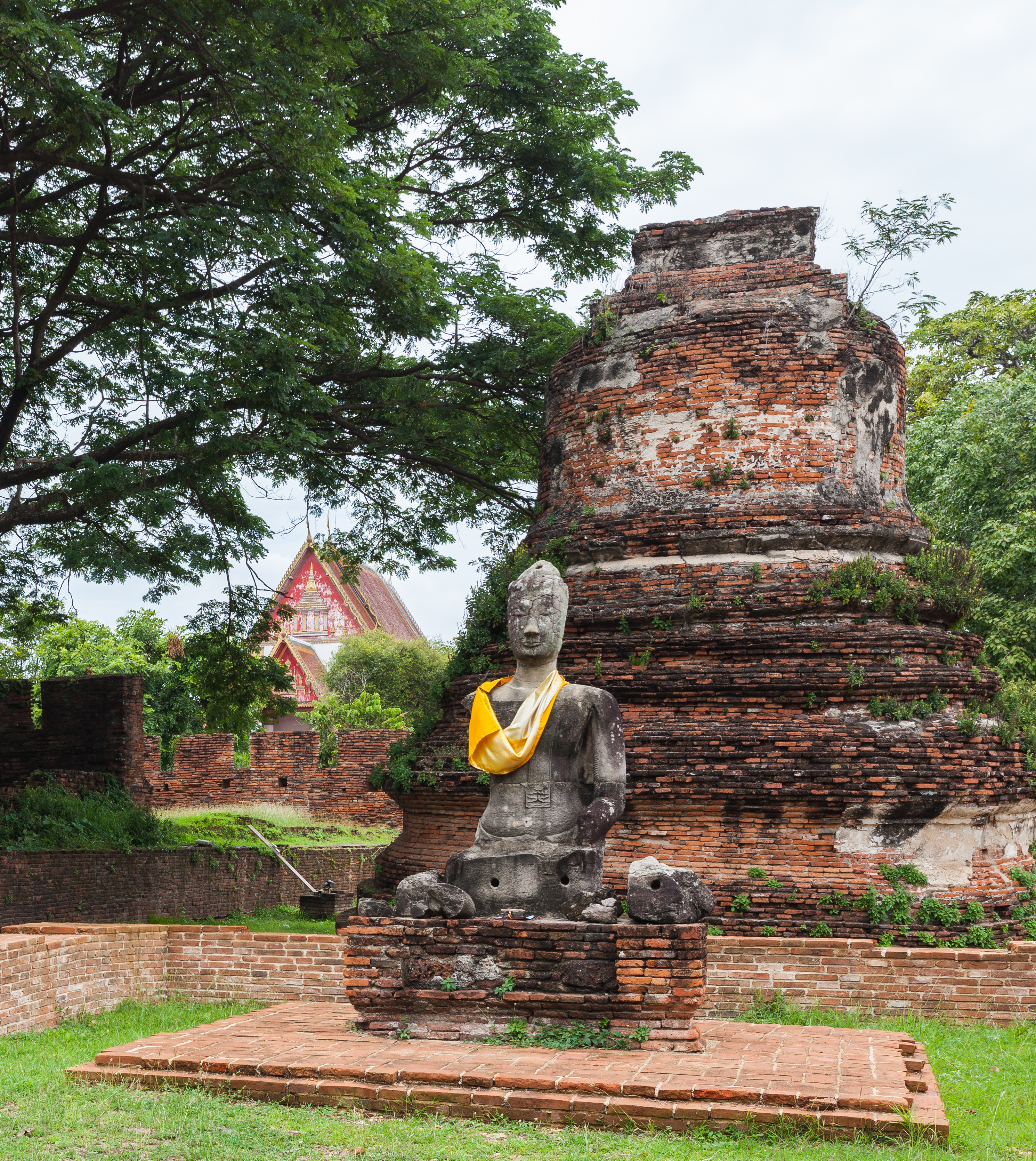 Templo Phra Si Sanphet, Ayutthaya, Tailandia